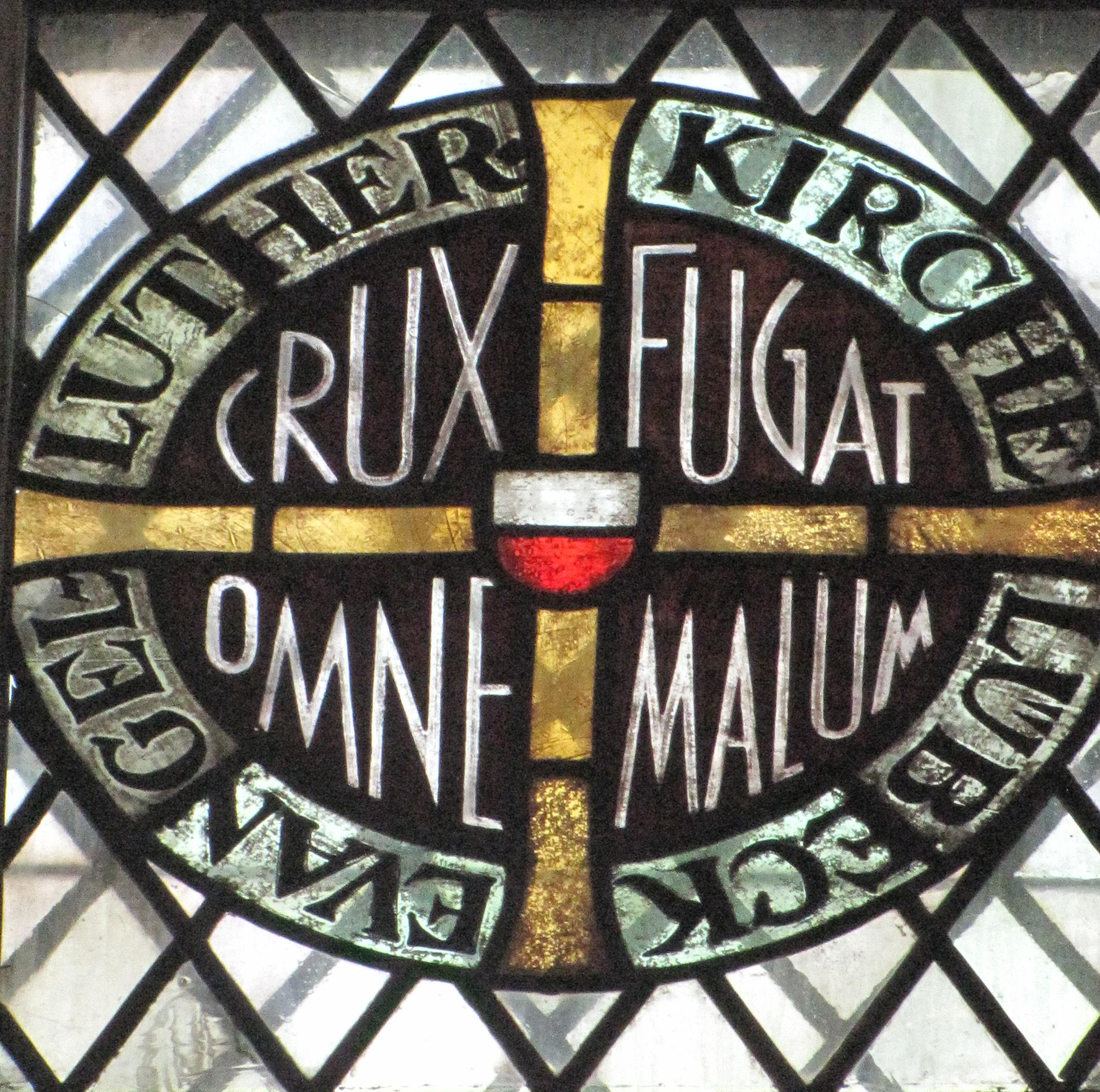 Logo (seal) of the Evangelisch-Lutherische Kirche in Lübeck, as seen in a stained glass window in the Marienkirche, Lübeck; the Latin inscription reads: CRUX FUGAT OMNE MALUM (German: Das Kreuz verscheucht alles Böse) which was a common inscription on medieval Lübeck coins